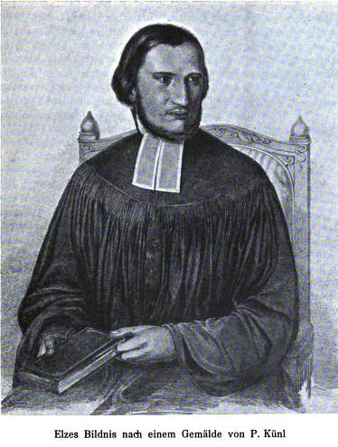 Theodor Elze (1823–1900), protestant theologian